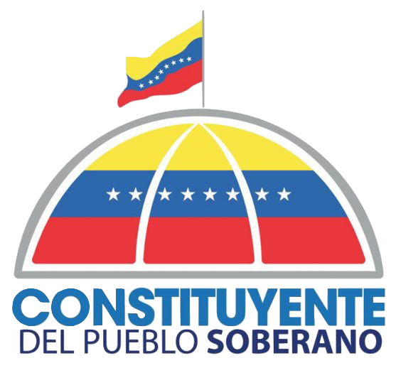 Logo of the 2017 Constitutional Assembly of Venezuela